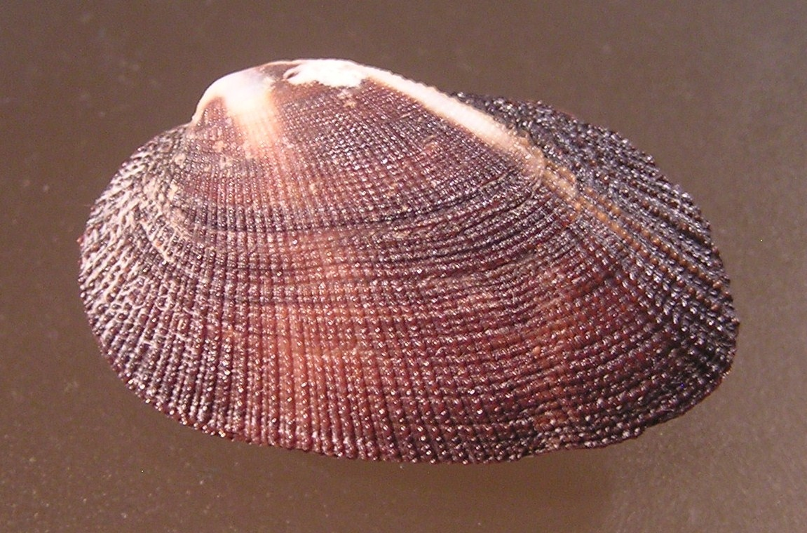 Barbatia fusca Bruguiere , an arc clam from the family Arcidae.